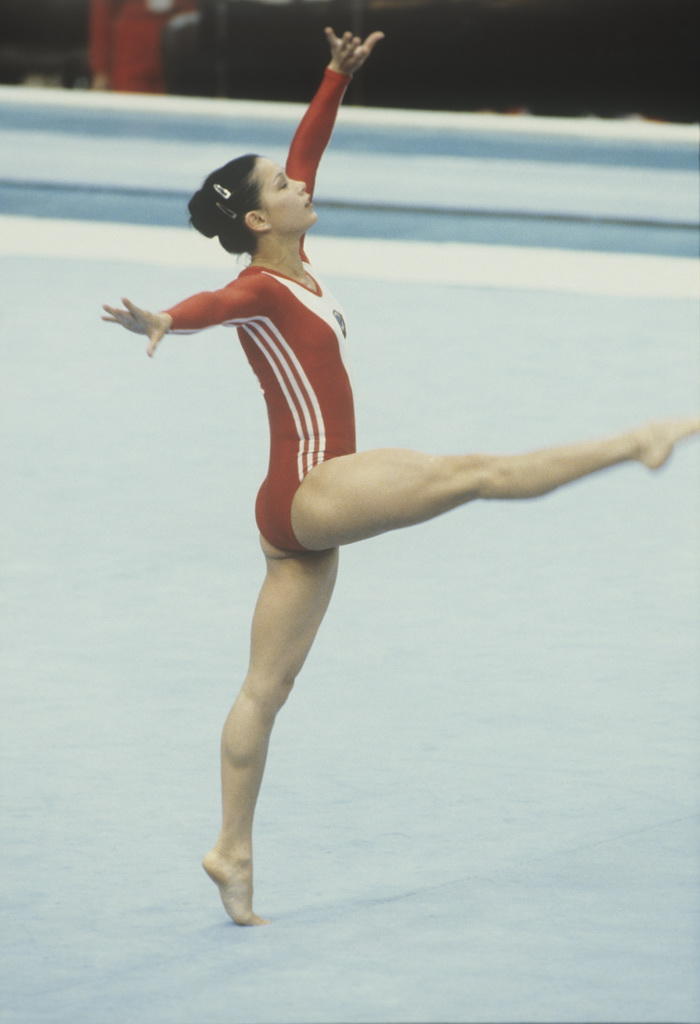 “Soviet gymnast Nelli Kim”. Soviet gymnast Nelli Kim performing her routine during the artistic gymnastics competition at the XXII Olympic Games. Five-time Olympic champion (three gold medals in Montreal in 1976, two gold medals in Moscow in team competition and floor exercise). July 19-August 3, 1980.